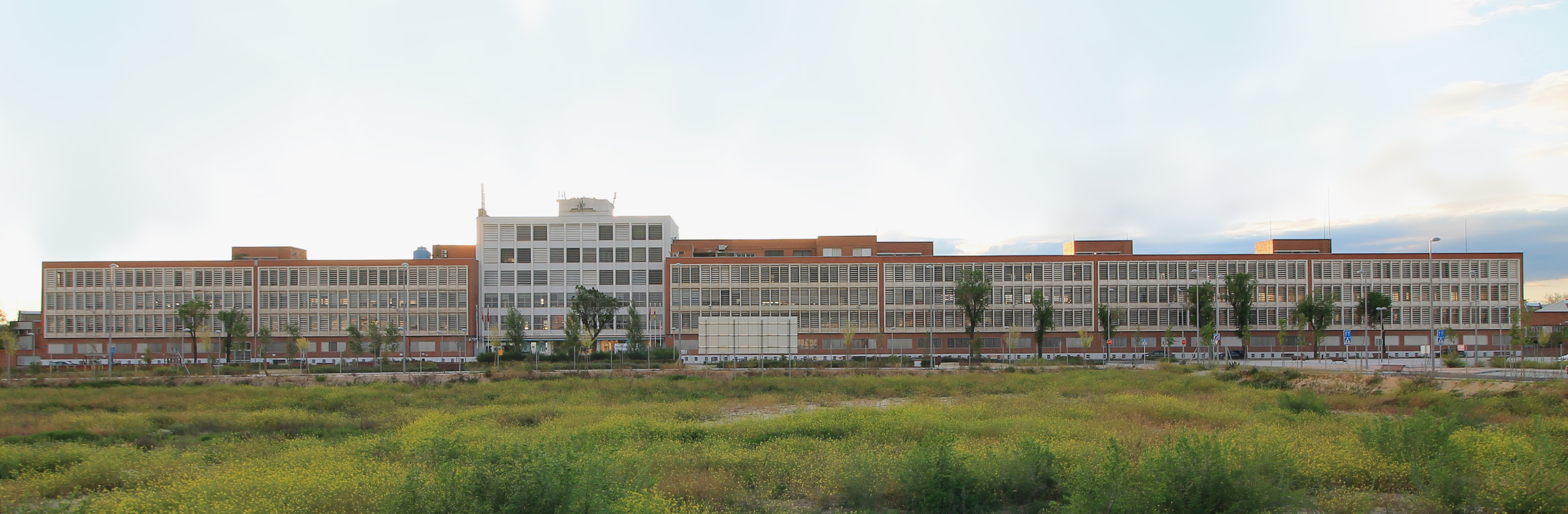 Former head offices of Barreiros Diesel. Nowadays, facilities of the PSA factory in Madrid (Spain).